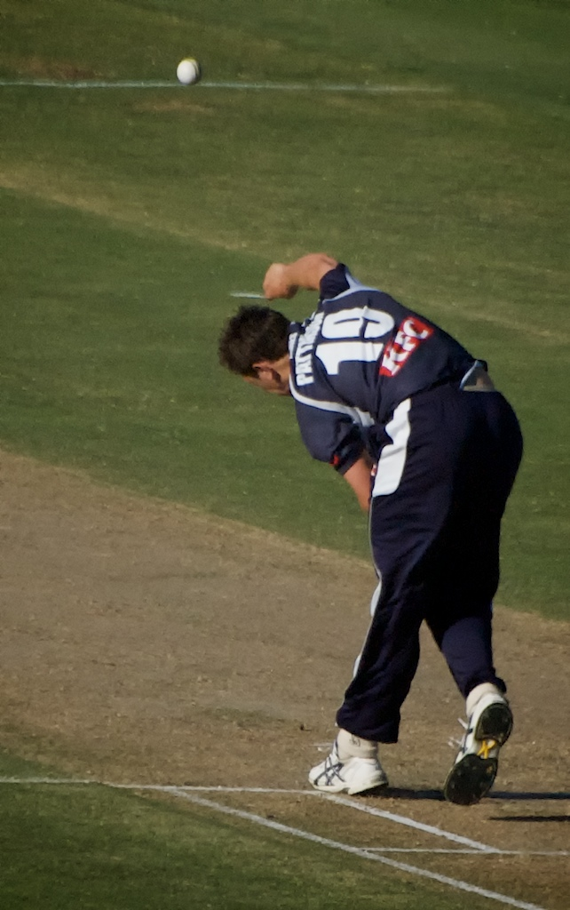 James Pattinson at KFC Twenty20 BigBash - WA v VIC, 10 January 2010, WACA Ground